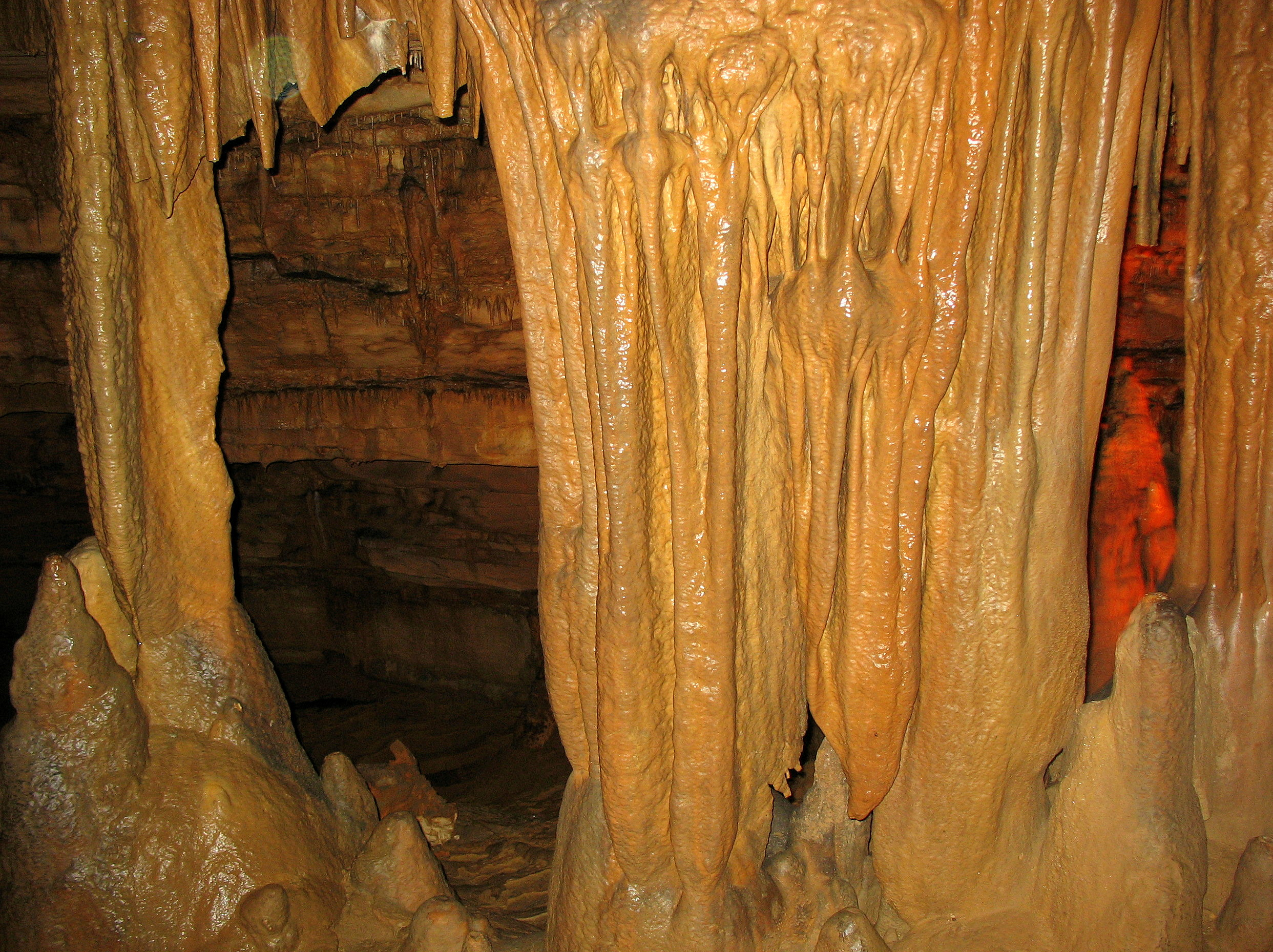 Formations observed through a tour in Marengo Cave.